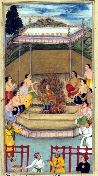 Episode from razmnama Adi parwa. Yaja and upayaja performance yagna and birth of Dhristhidhyumna from yagna made by Bilal Habsi from dispersed 1598-99 razmnama